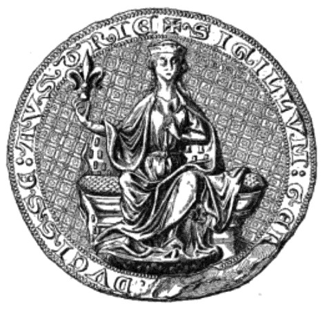 Gertrude, Duchess of Austria